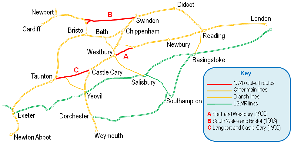 A map showing cut-off routes opened by the Great Western Railway 1900 to 1906 to shorten routes from London to the south west of England.